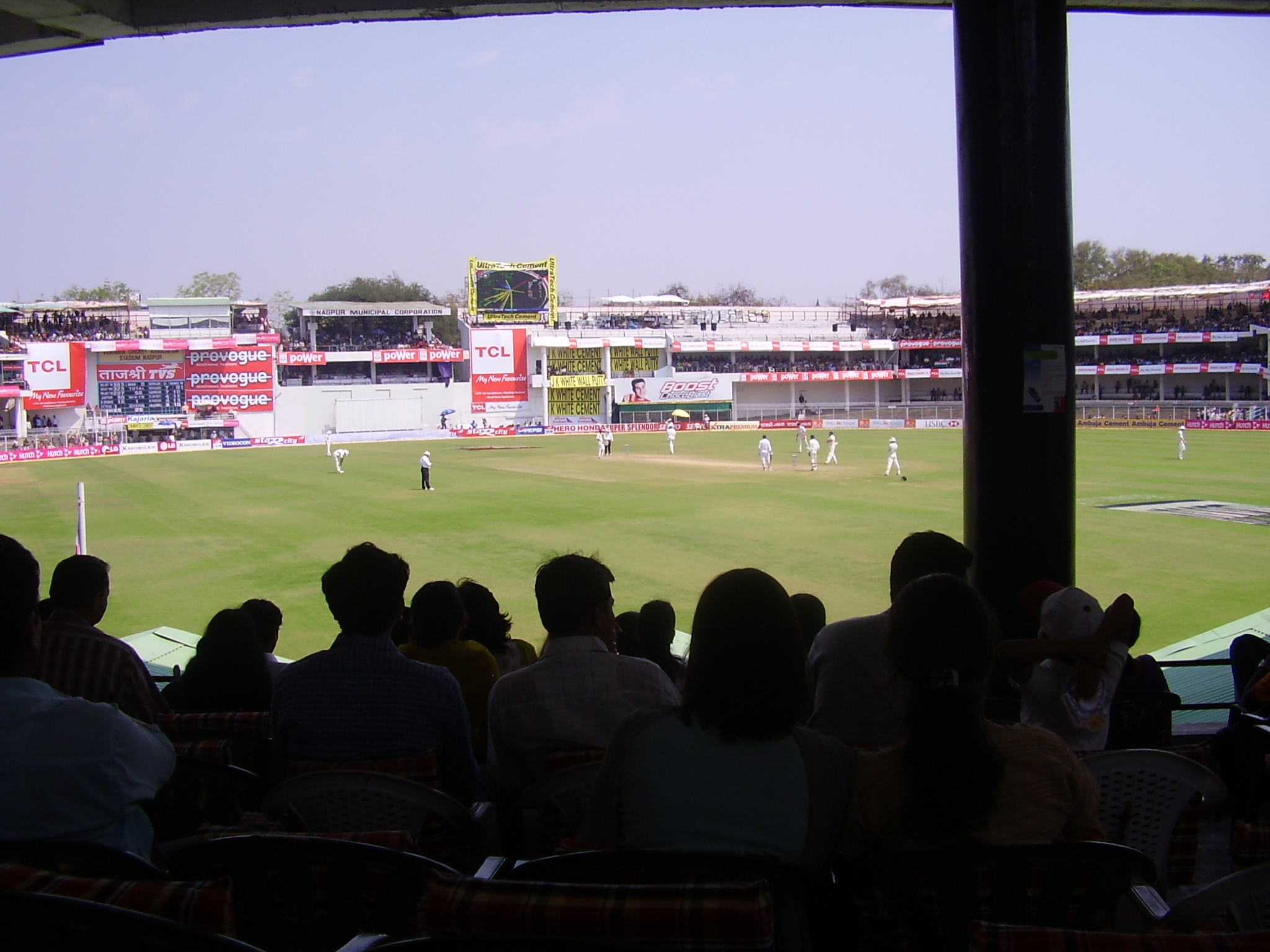 Captured at the VCA during England's tour of India - Mar 1-5, 2006.